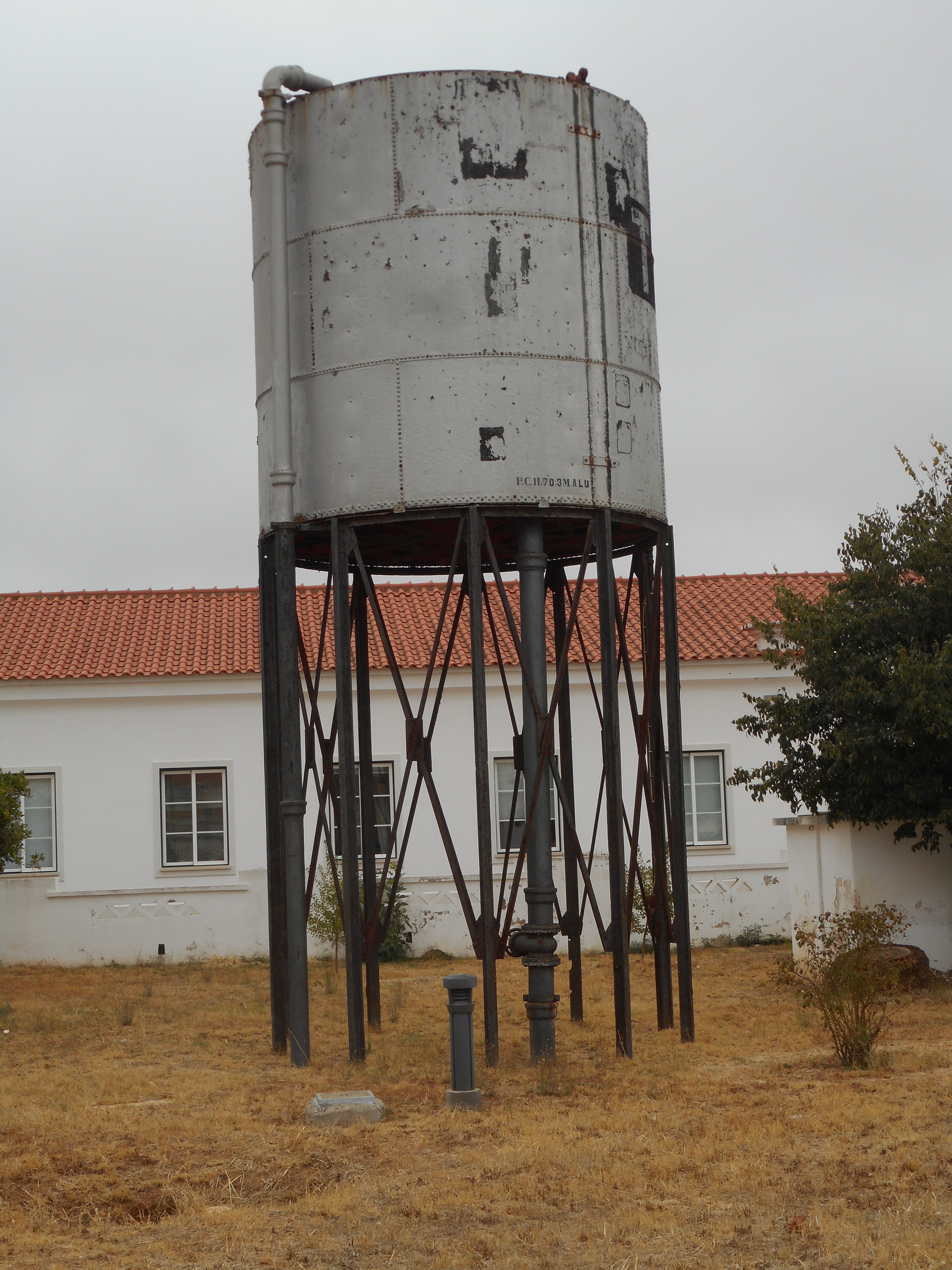 Old railway water tower located on the Rua Primeiro de Maio, close to the railway station, within the town of Tunes, Silves, Algarve,Portugal.